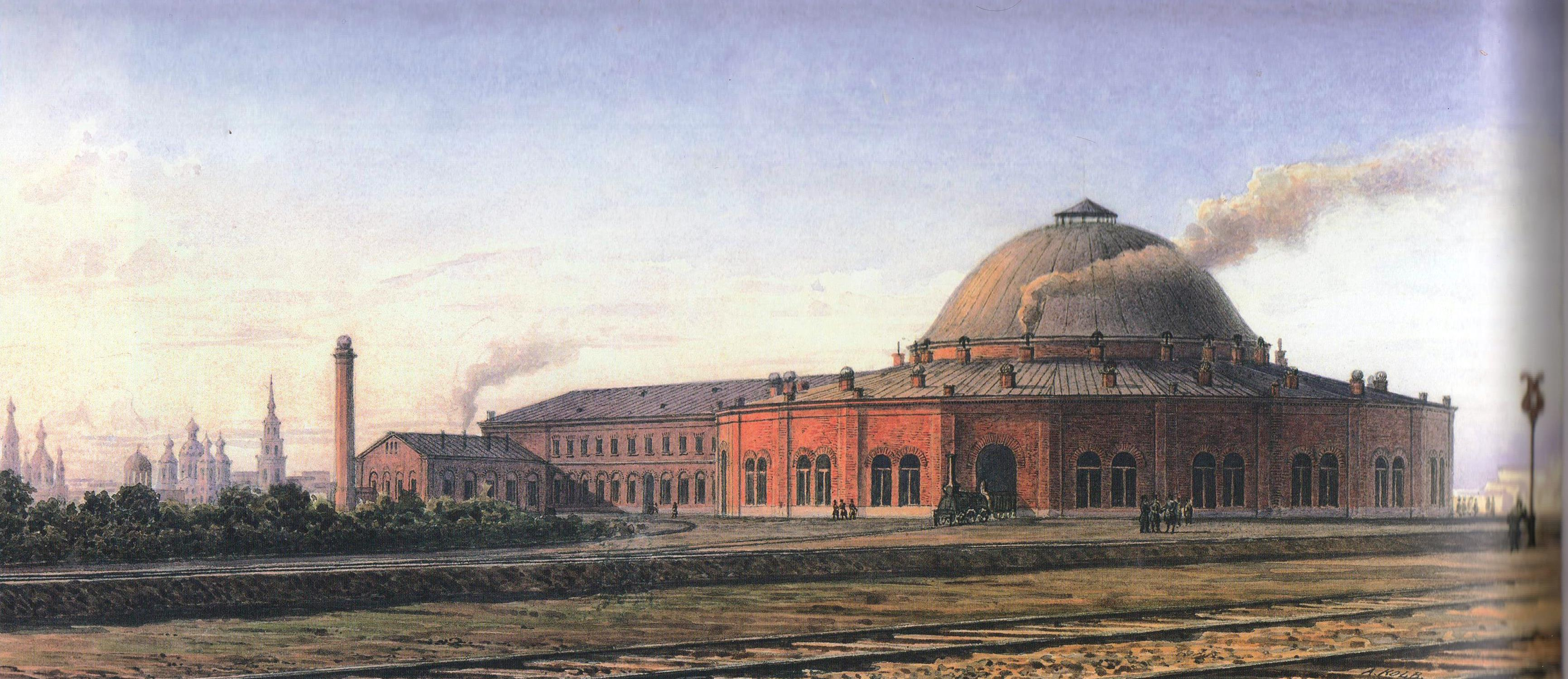 Roundhouse Moscow-Saint Petersburg Railway